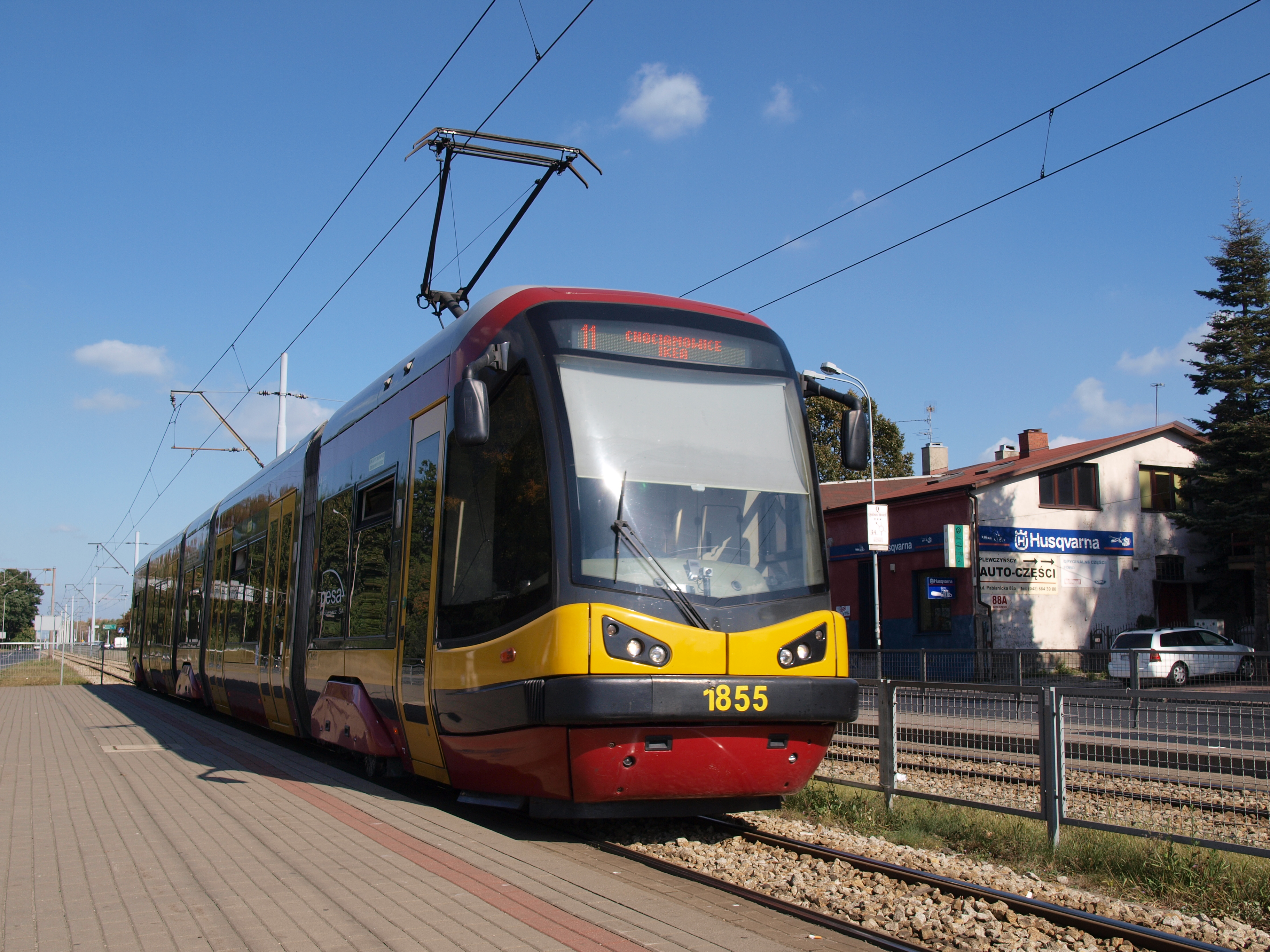 PESA 122N tram in Łódź.